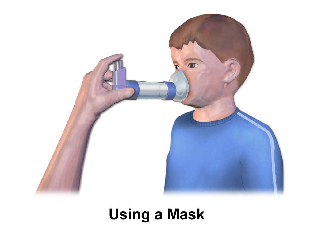 A medical illustration depicting a mask metered-dose inhaler for children.